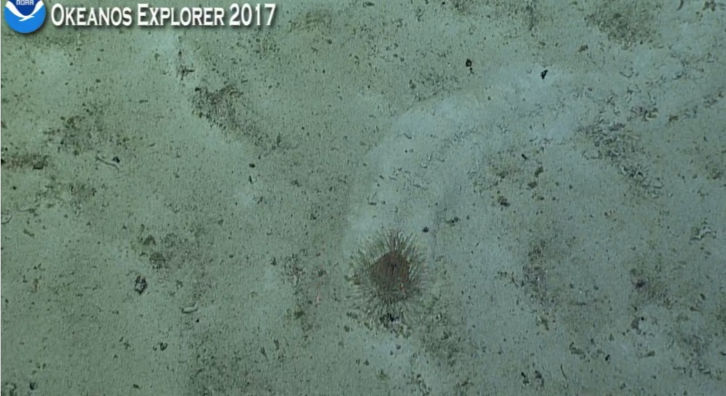 A deep-sea spatangoid sea urchin Phrissocystis sp. observed in the abyss by the NOAA Okeanos Explorer mission "2017 American Samoa Expedition: Suesuega o le Moana o Amerika Samoa".